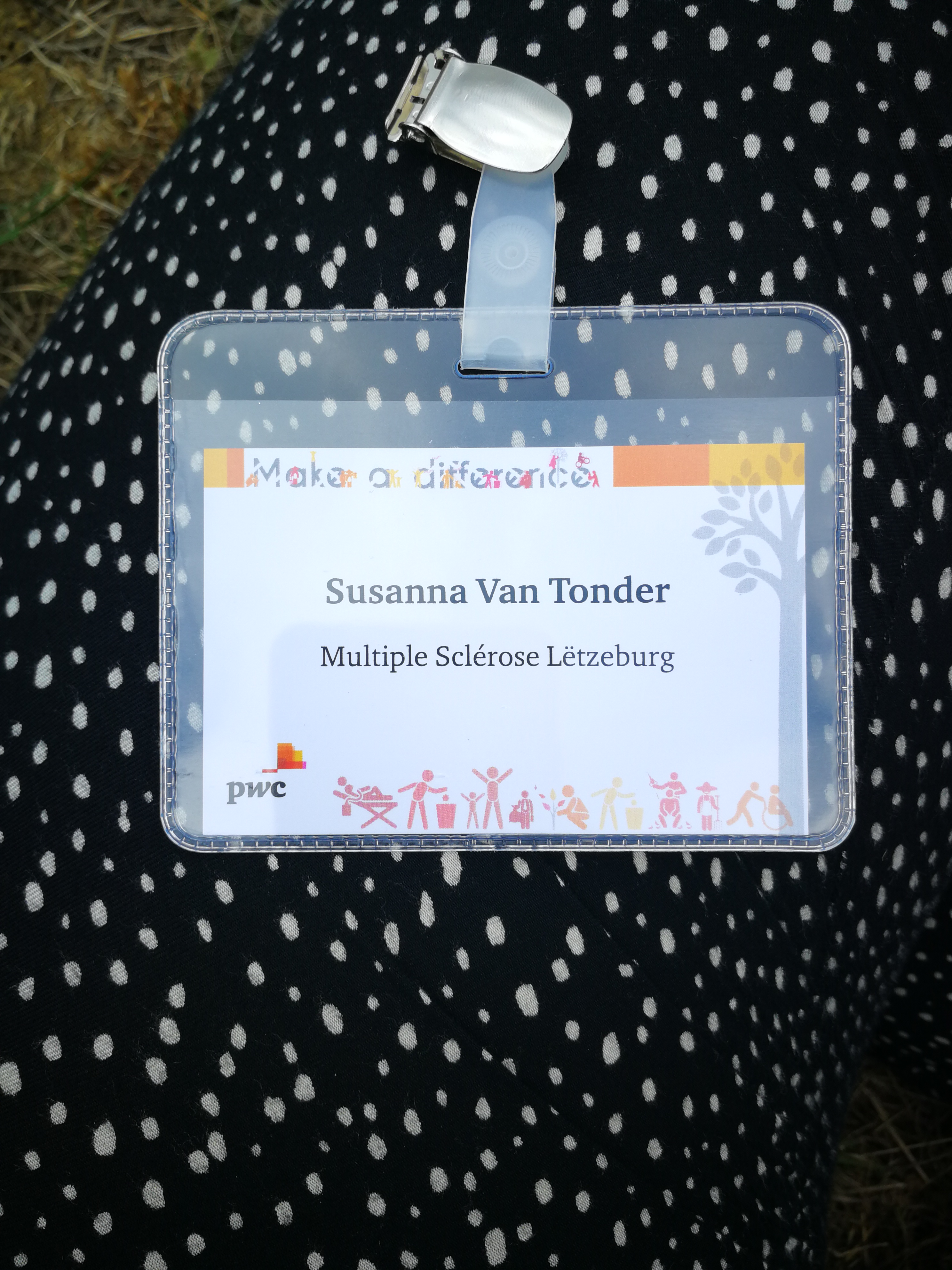 Badge on Dark back ground